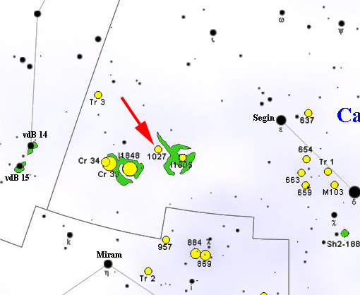 Map of NGC 1027